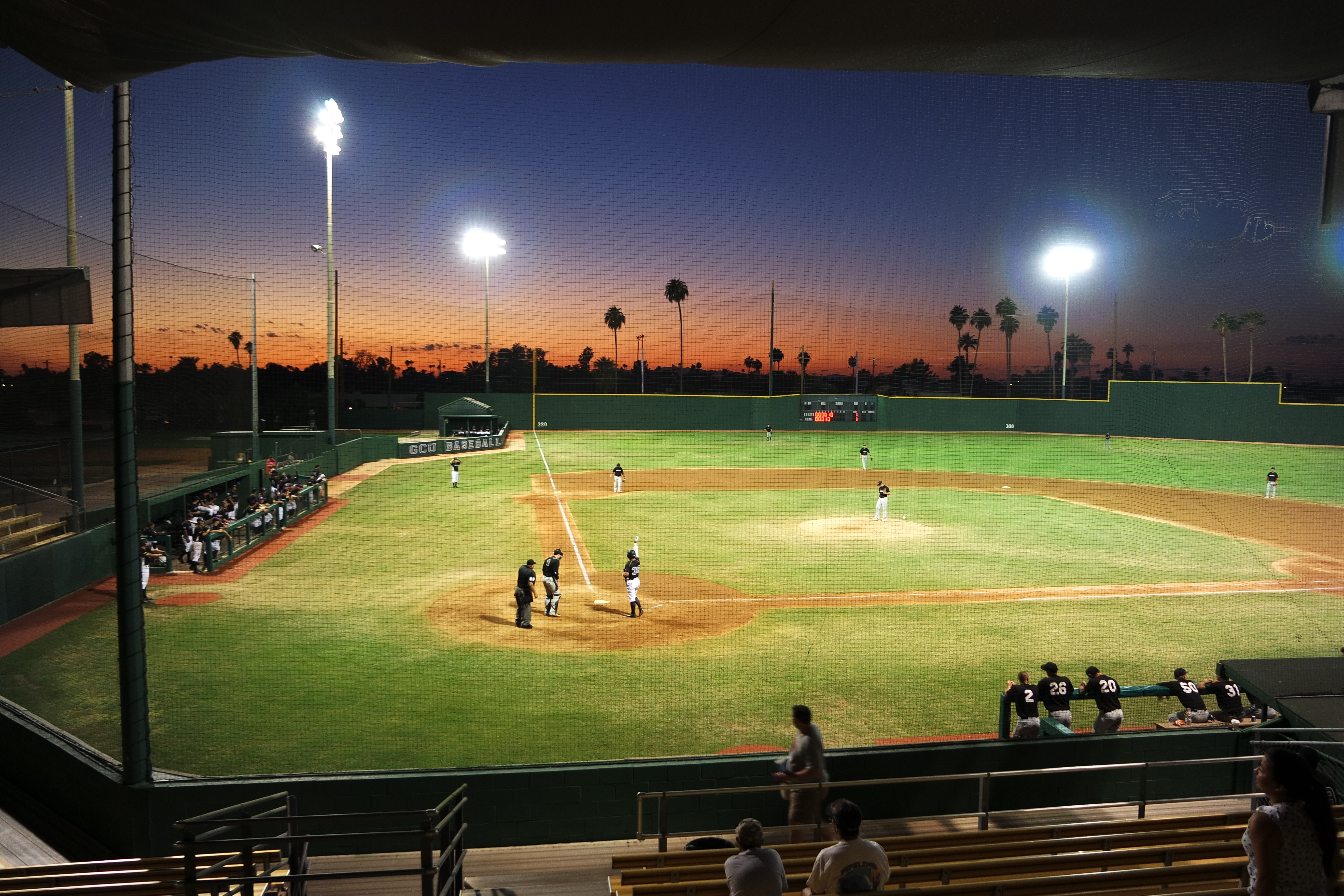 Sunset at Brazell Stadium on the campus of Grand Canyon University during a fall scrimmage